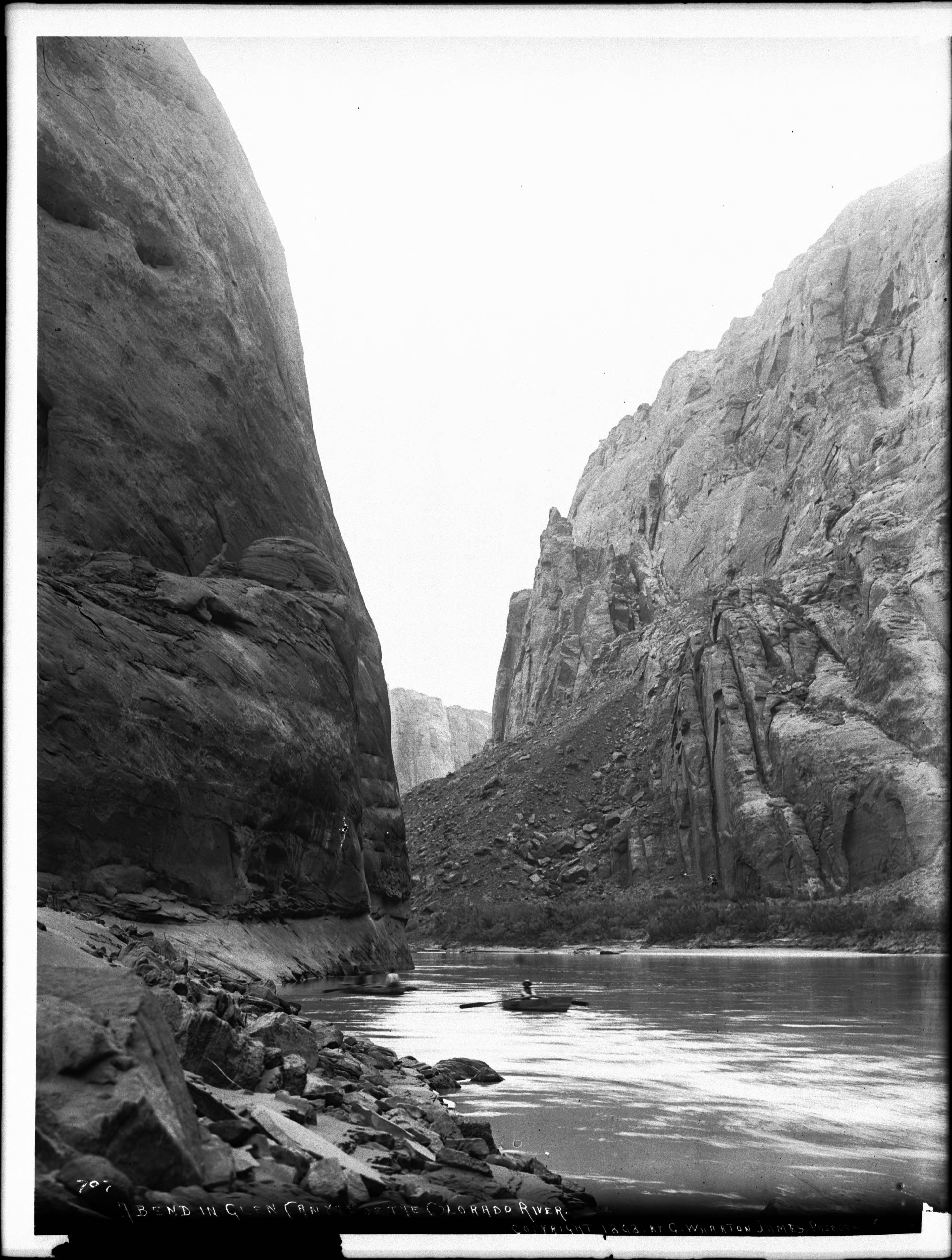 A bend in Glen Canyon of the Colorado River, Grand Canyon, ca.1898 Photograph of a bend in Glen Canyon of the Colorado River, Grand Canyon, ca.1898. The towering nearly-vertical rocky canyon walls loom over the placid river. The canyon rim is visible in the distance. A rocky embankment forms the shore on one side of the river. Two men row small boats on the river. Call number: CHS-4708 Photographer: James, George Wharton Filename: CHS-4708 Coverage date: 1925/1935 Part of collection: California Historical Society Collection, 1860-1960 Format: glass plate negatives Type: images Part of subcollection: Title Insurance and Trust, and C.C. Pierce Photography Collection, 1860-1960 Repository name: USC Libraries Special Collections Accession number: 4708 Microfiche number: 1-91-201 Archival file: chs_Volume98/CHS-4708.tiff Repository address: Doheny Memorial Library, Los Angeles, CA 90089-0189 Geographic subject (country): USA Format (aacr2): 2 photographs : glass photonegative, photoprint, b&w ; 22 x 17 cm. Rights: Digitally reproduced by the USC Digital Library; From the California Historical Society Collection at the University of Southern California Subject (adlf): rivers Project: USC Repository Identifying number: unidentified no: James-707 Contributing entity: California Historical Society Date created: 1925/1935 Publisher (of the digital version): University of Southern California. Libraries Format (aat): photographic prints; photographs Geographic subject (state): Arizona Legacy record ID: chs-m17022; USC-1-1-1-14262 Geographic subject: canyons: Grand Canyon Access conditions: Send requests to address or e-mail given. Phone (213) 821-2366; fax (213) 740-2343. Subject (file heading): Natural features -- Parks -- Grand Canyon -- Colorado River -- Glen Canyon, Lee's Ferry Subject (lcsh): Parks; Canyons; Rivers